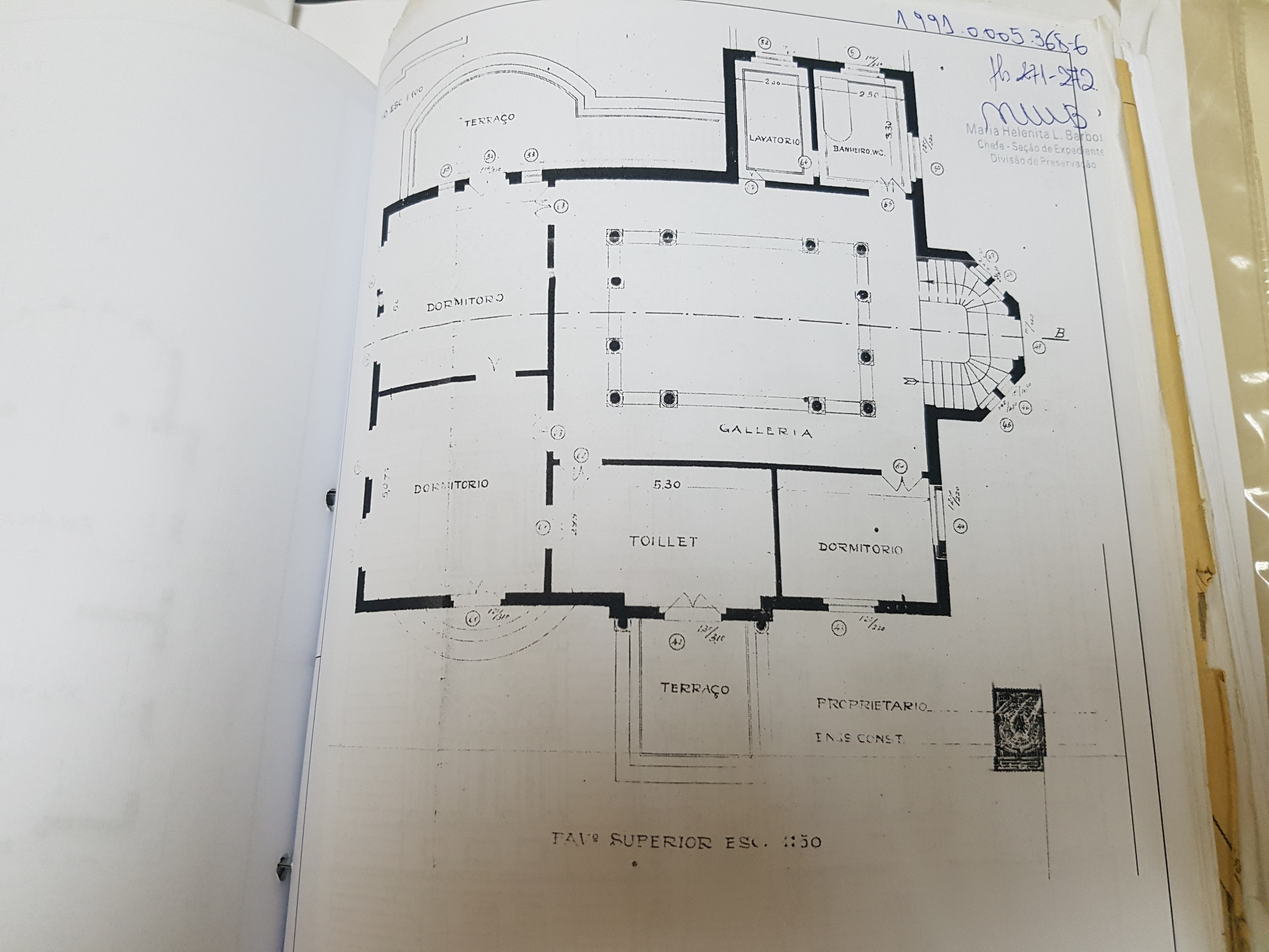 Projeto da planta do piso superior do imóvel